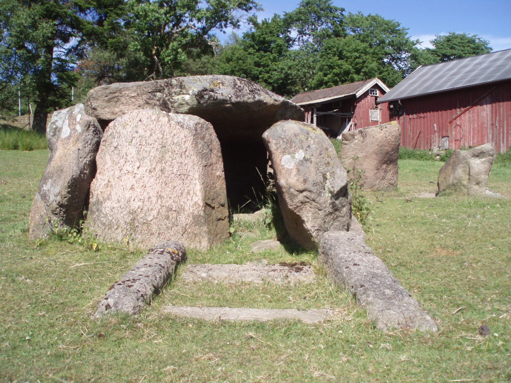 Queen Hacka's grave on Hising Island.